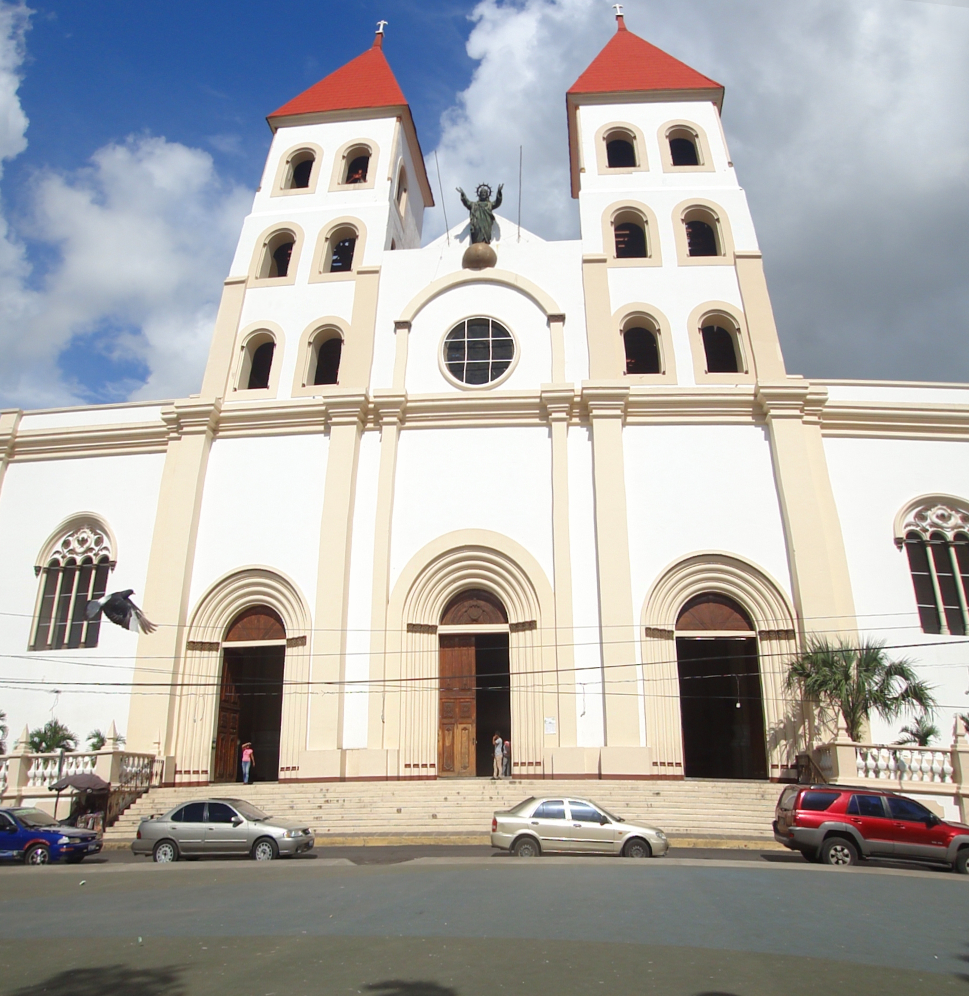 Cathedral "Nuestra Señora de la Paz" (Our Lady of Peace), City of San Miguel, El Salvador.